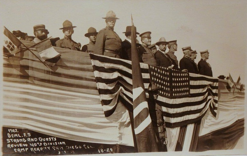 Major General Frederick Smith Strong and guests review 40th Division troops